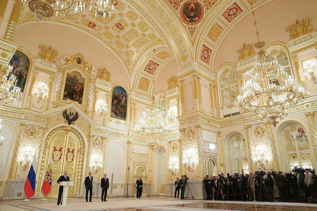 The beautifully ornate Alexander Hall in the Great Kremlin Palace in Moscow, Russia.